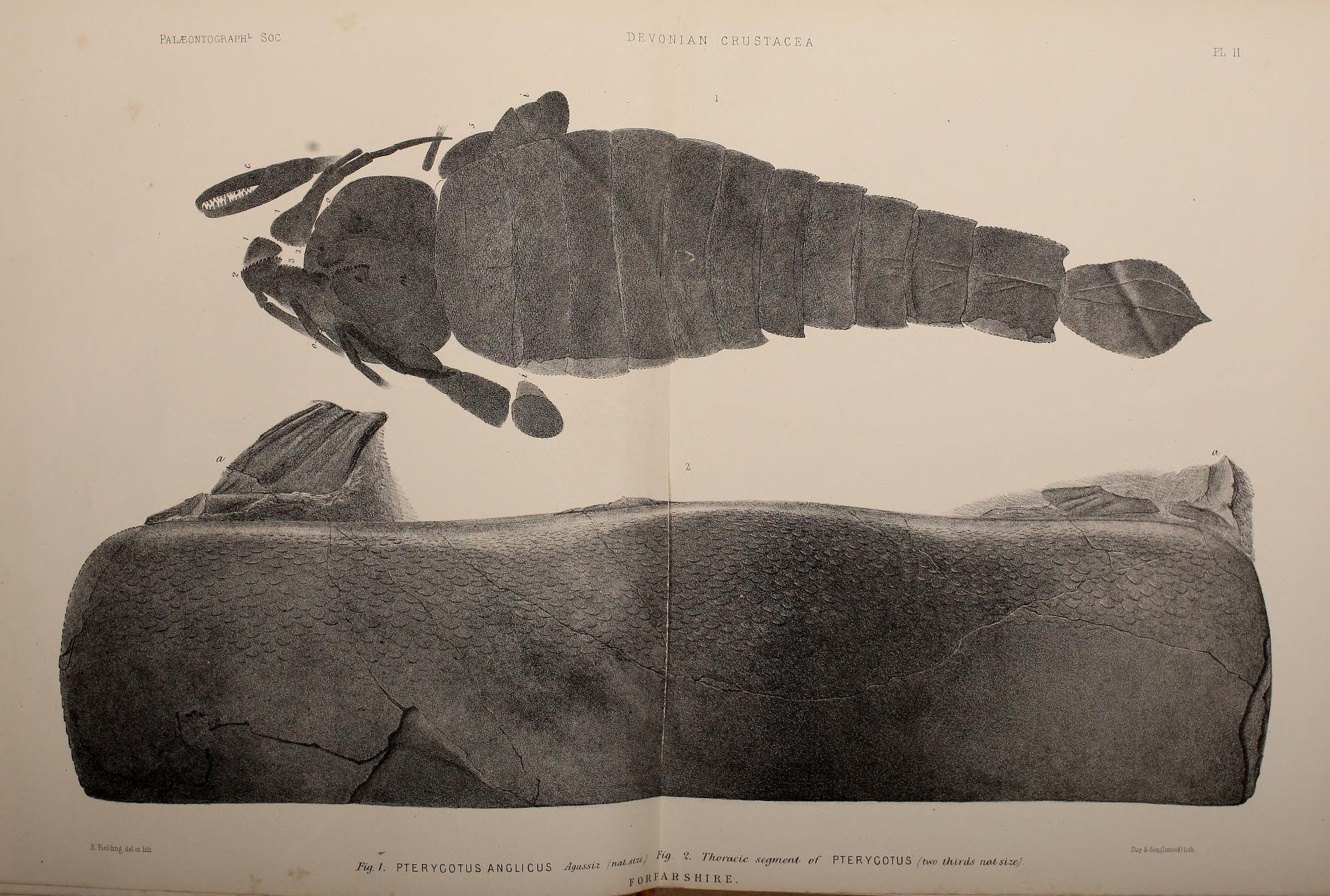 Paueontograph l Soc DEVONIAN CRUSTACEA II, II ■ ieluhlh Fiq.l. PTERYGOTUS ANGLICUS Aj". nat.siM h H ■ Thoracic segment of PTERYCOTUSy«wo thirds nalsiit). . f0 rFAB SHIRE.